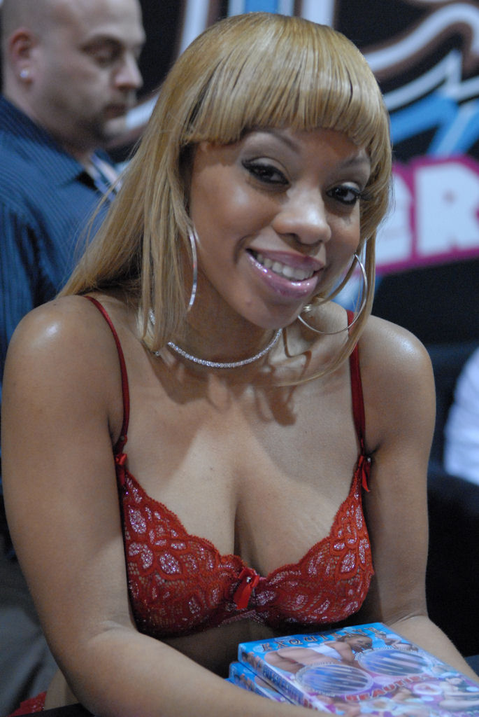 Melrose Foxxx at AVN Adult Entertainment Expo 2008